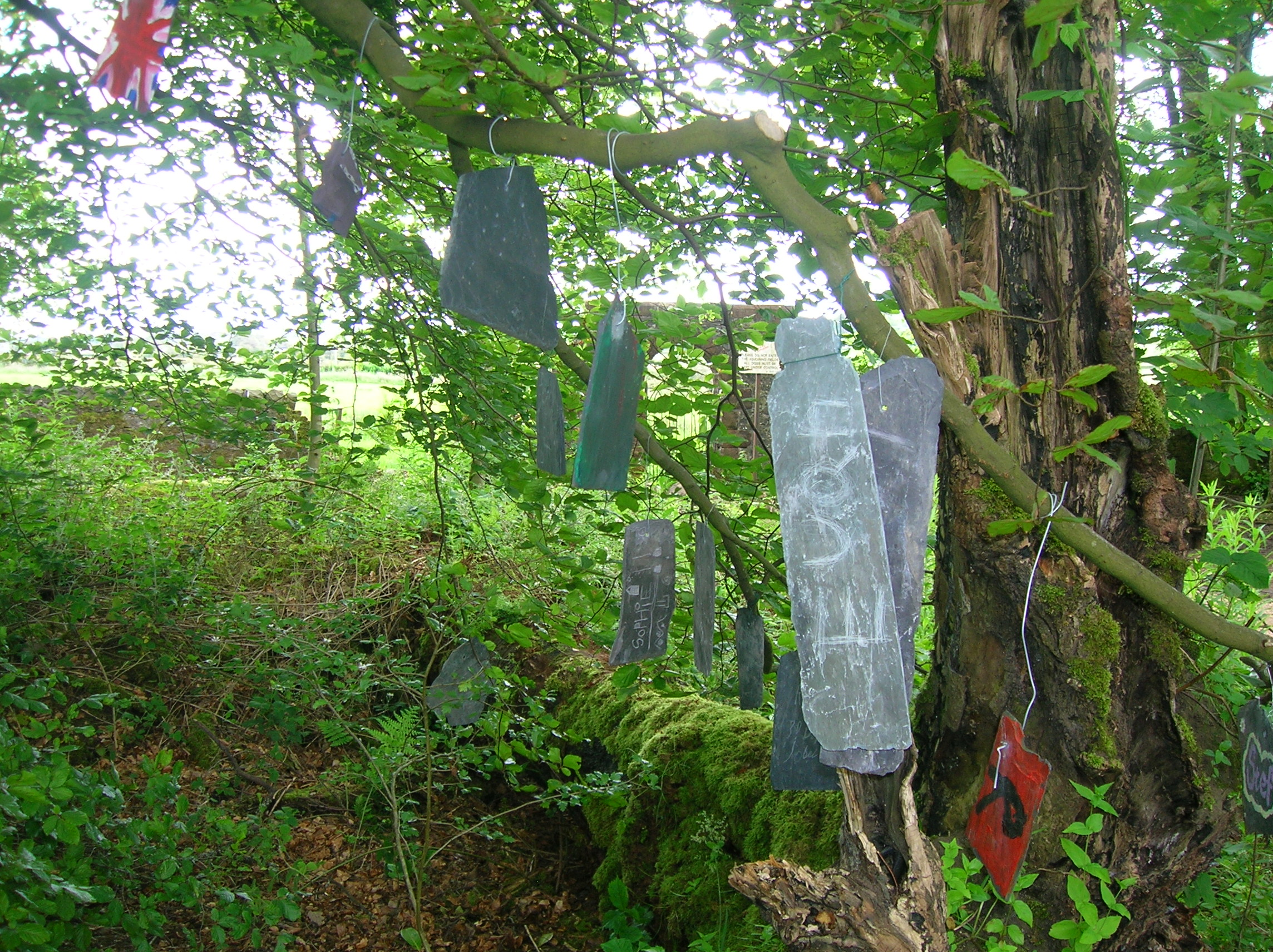 Wishes on the Spier's parklands Wish Tree, Beith, North Ayrshire, Scotland.